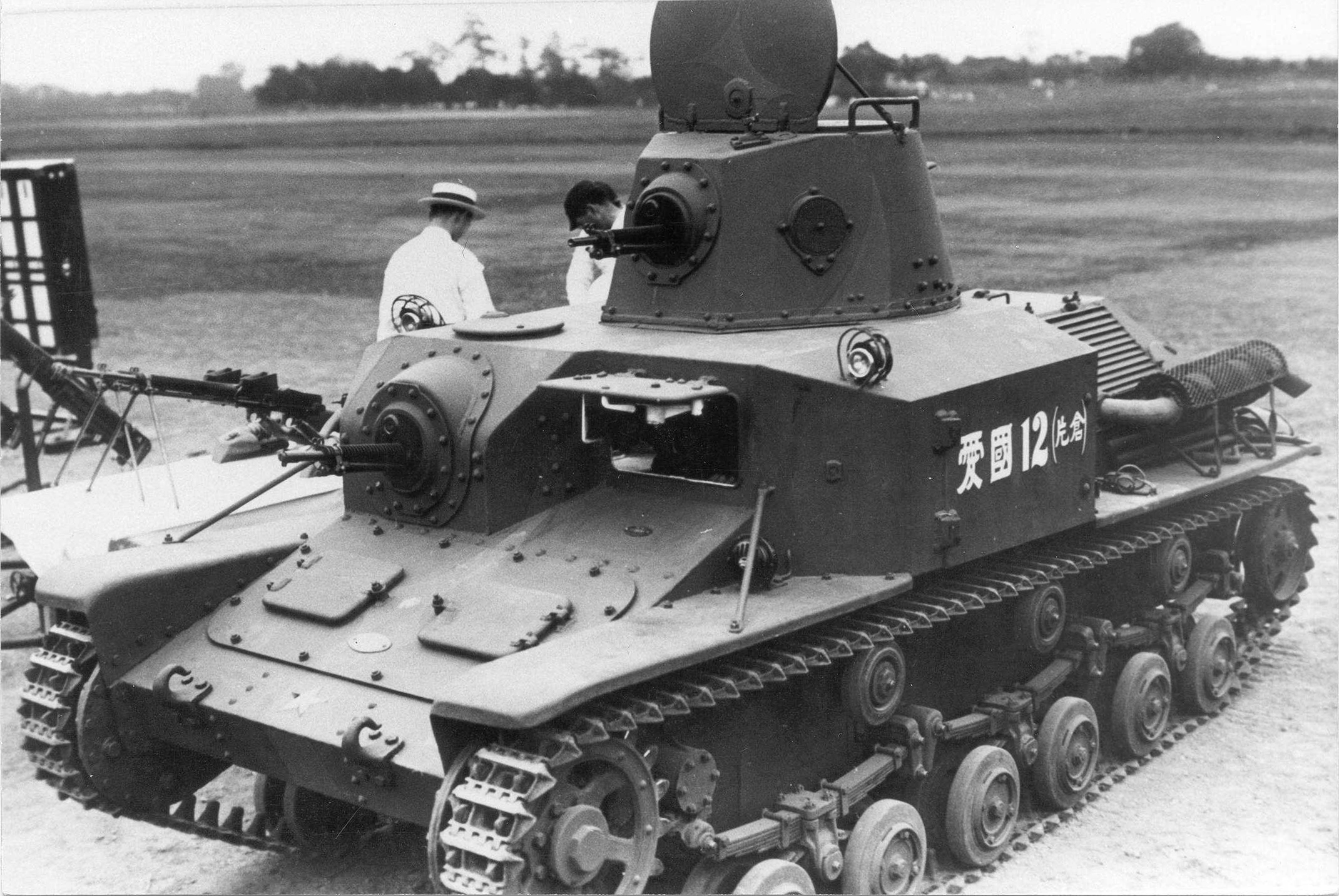 A Type 92 Jju Sokosha (Heavy Armoured Car) Tankette of the Imperial Japanese Army.